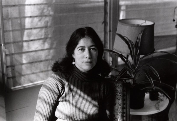 Faculty, Creative Writing Program University of Houston